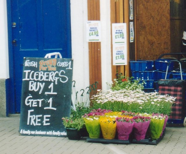 Buy one, get one free ! Walking up Monnow Street in Monmouth, this made me laugh !